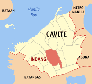 Map of Cavite showing the location of Indang